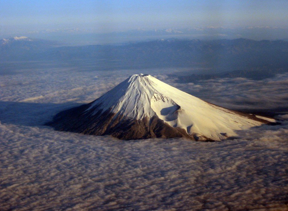 Photographed from the morning JAL flight from Haneda to Itami.